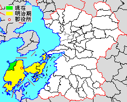 The location of Reihoku in Kumamoto Prefectuur, Japan